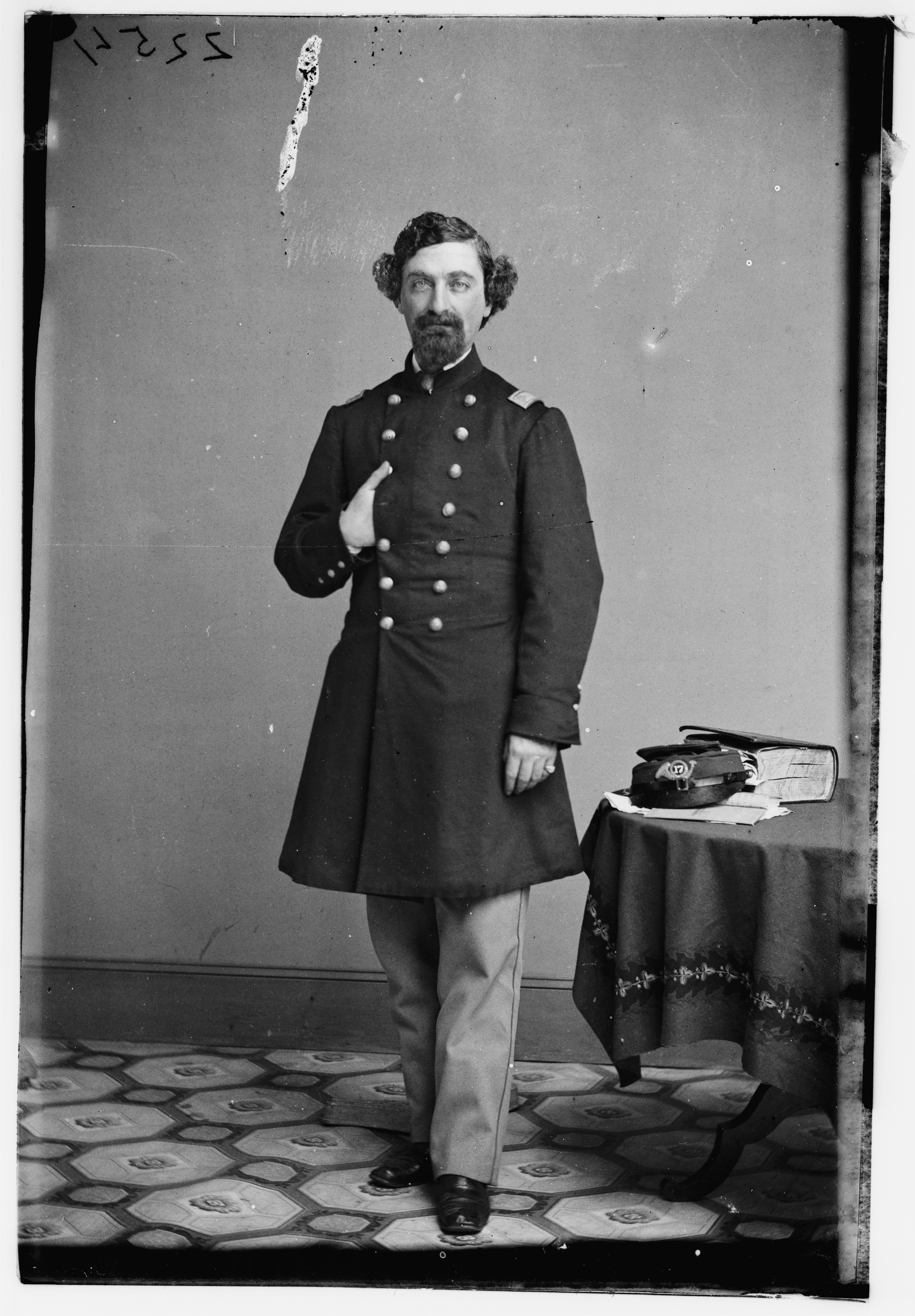 Title: C.A. Johnson, 17th N.Y. Physical description: 1 negative